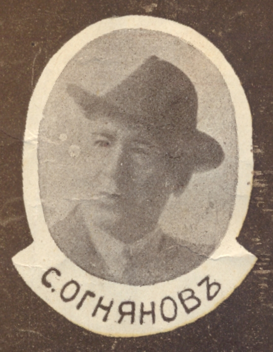 Portrait of the Bulgarian actor Sava Ognyanov (1876-1933) on a poster "Bulgarian scenic art 1900-1932"